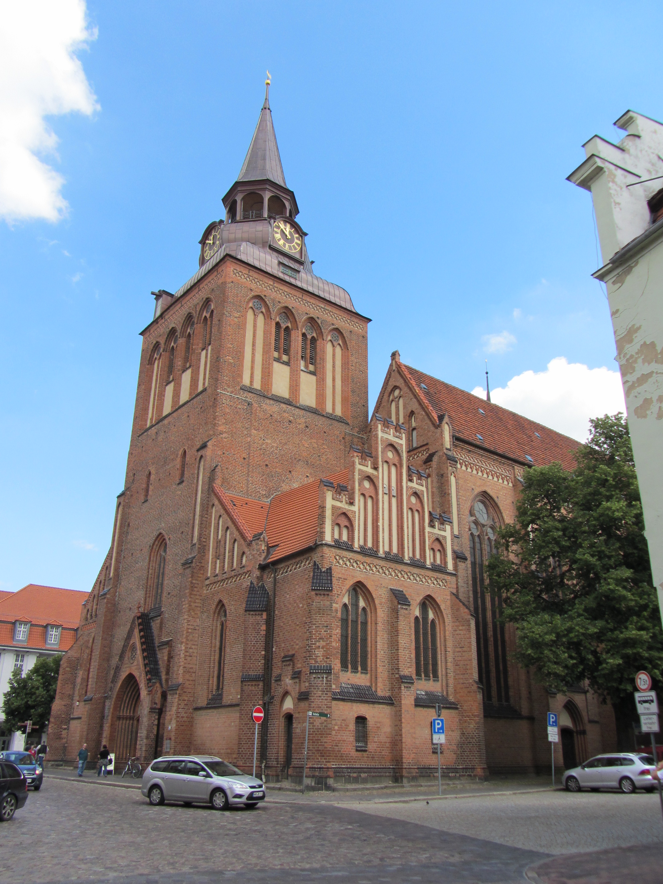 Saint Mary Church in Güstrow, district Rostock, Mecklenburg-Vorpommern, Germany